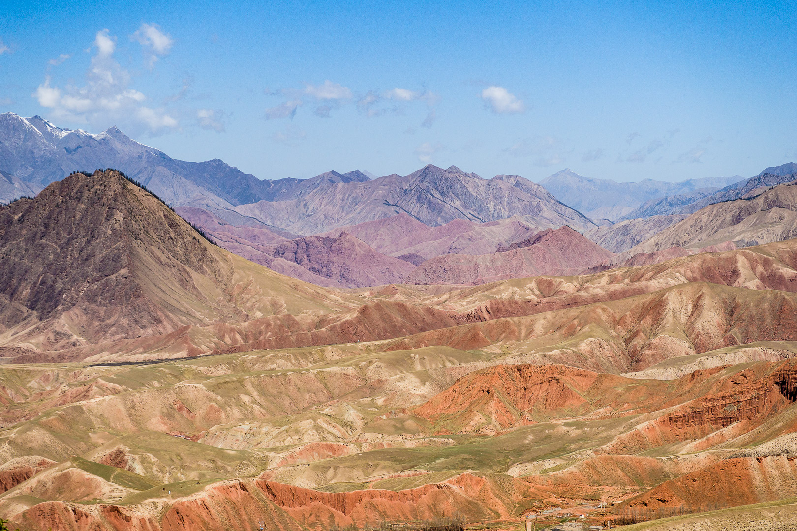 View of Qilian Mountians